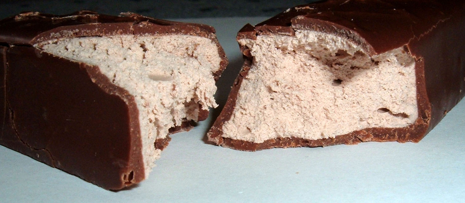 3 Musketeers barPurchased Feb. 2005 in Atlanta, GA, USA